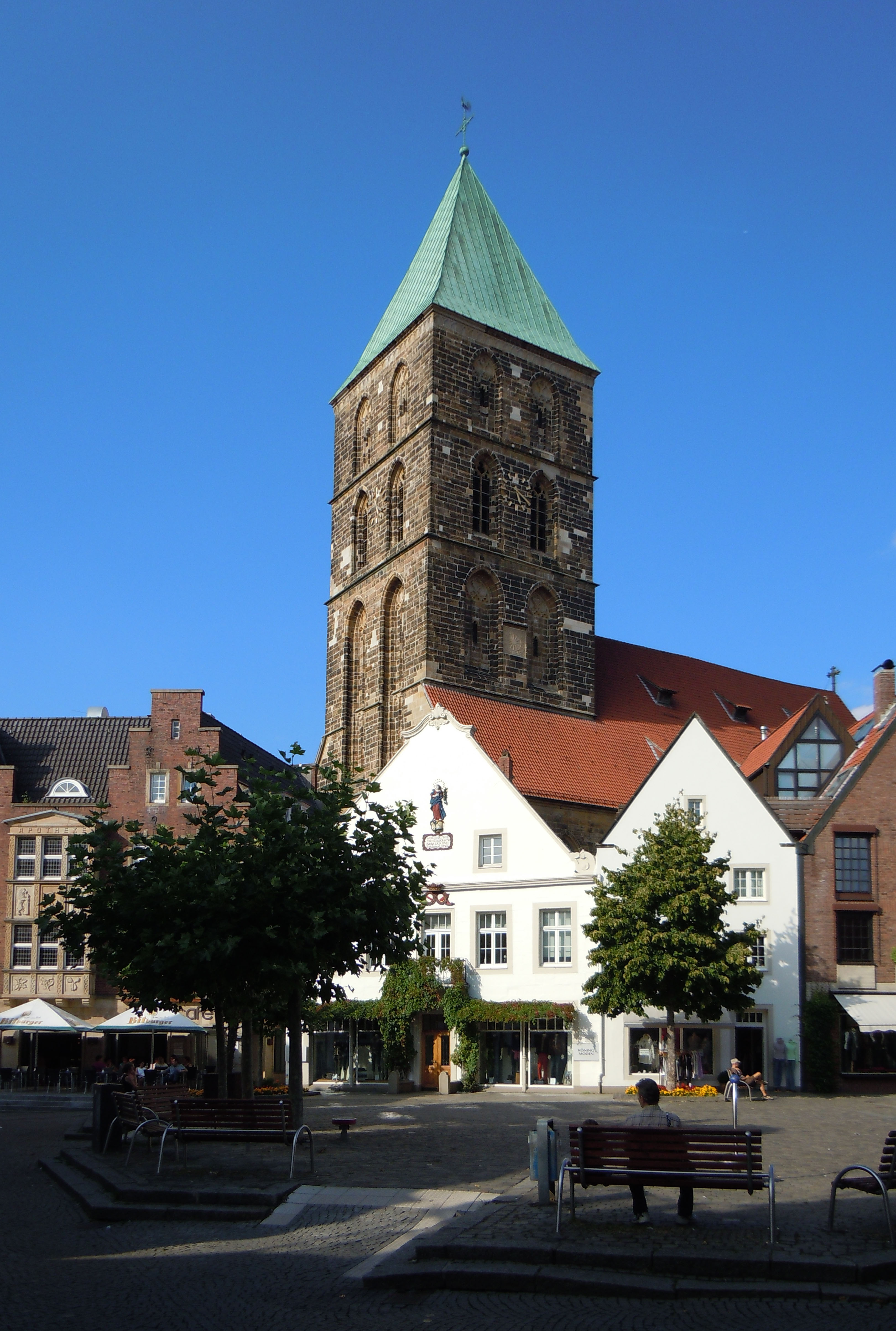 Church St. Dionysius Rheine, Gernmany This image shows a heritage building in Germany, located in the North Rhine-Westphalian city Rheine (no. 33).